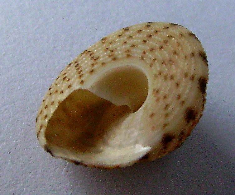 Coelotrochus tiaratus (Quoy & Gaimard, 1834) (synonym: Trochus tiaratus')' (underside) dredged from north of Pakiri, New Zealand. This work has been released into the public domain by its author, Graham Bould. This applies worldwide. In some countries this may not be legally possible; if so: Graham Bould grants anyone the right to use this work for any purpose, without any conditions, unless such conditions are required by law.